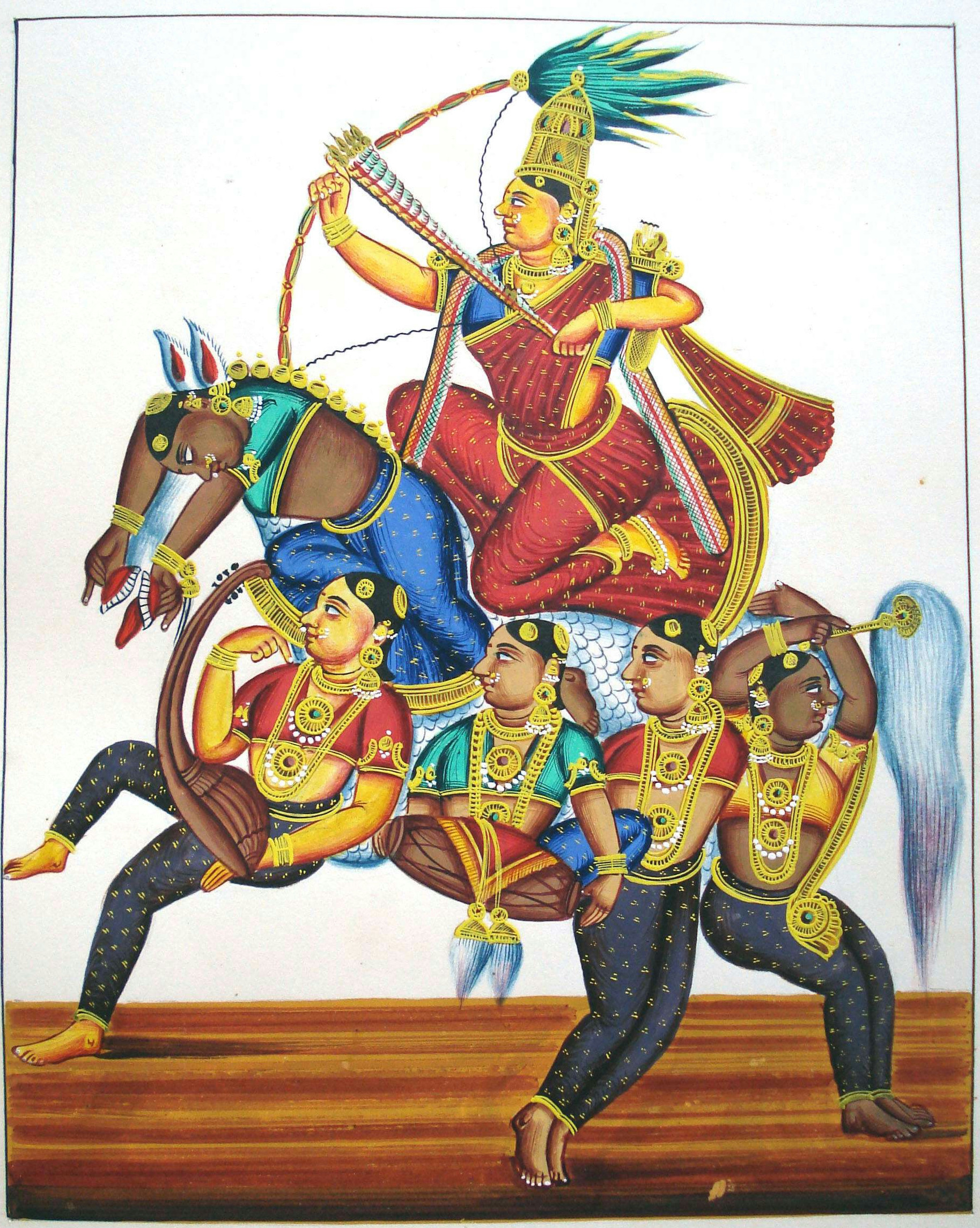 Rati on composite horse